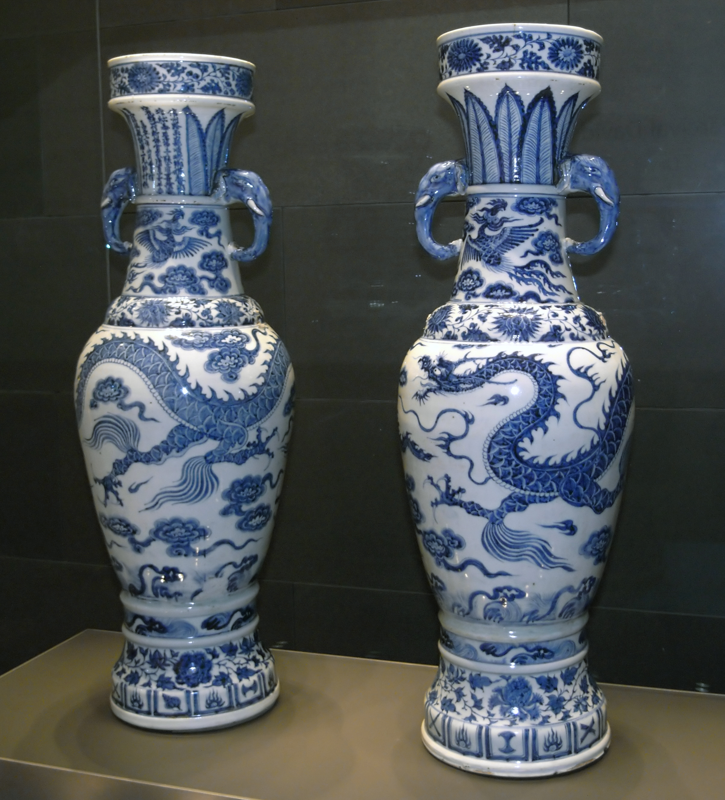 The David Vases (Yuan dynasty, 1351 AD) in Room 95, Chinese ceramics, British Museum